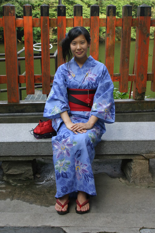 Girl in yukata, photographed in Kyoto, Japan. Author: me, Paul Vlaar Date: 2004-07-15